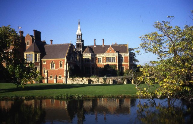 Madresfield Court